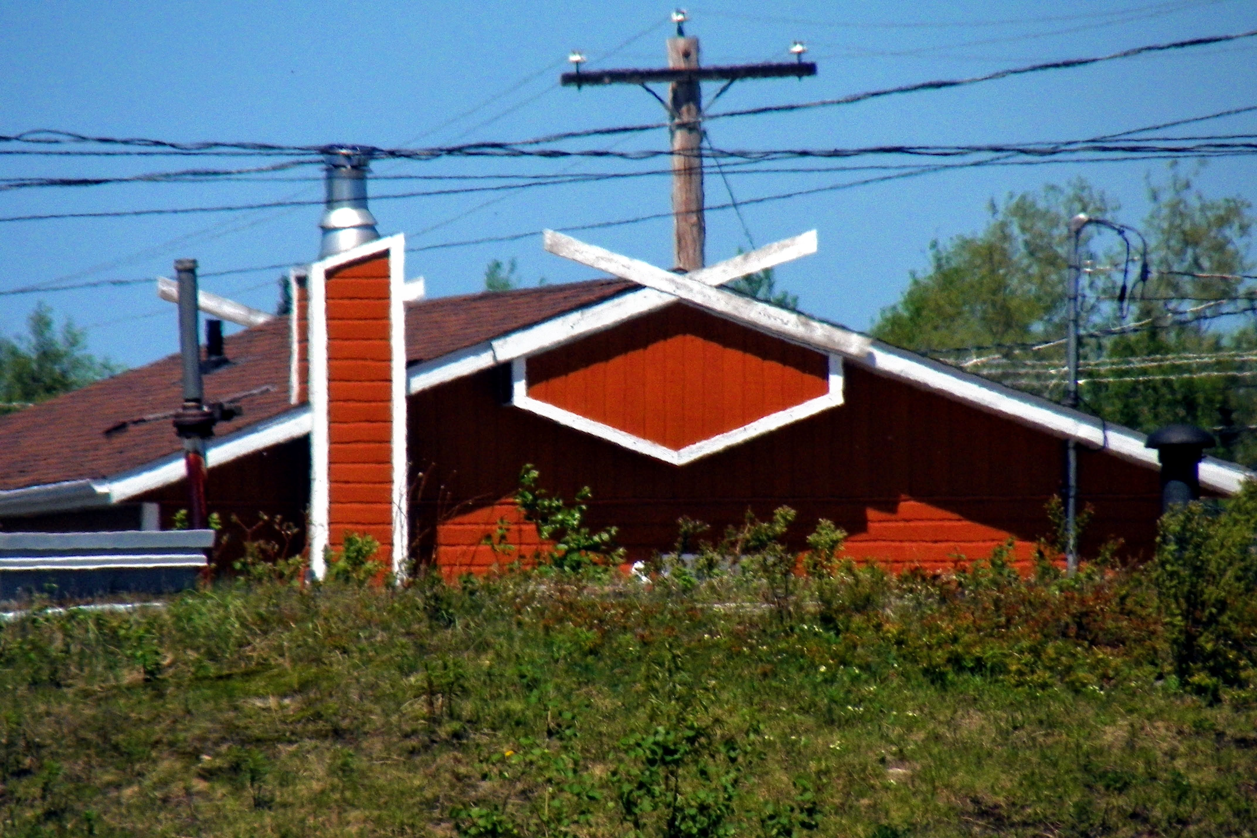 Architectural elements on a house in Obedjiwan